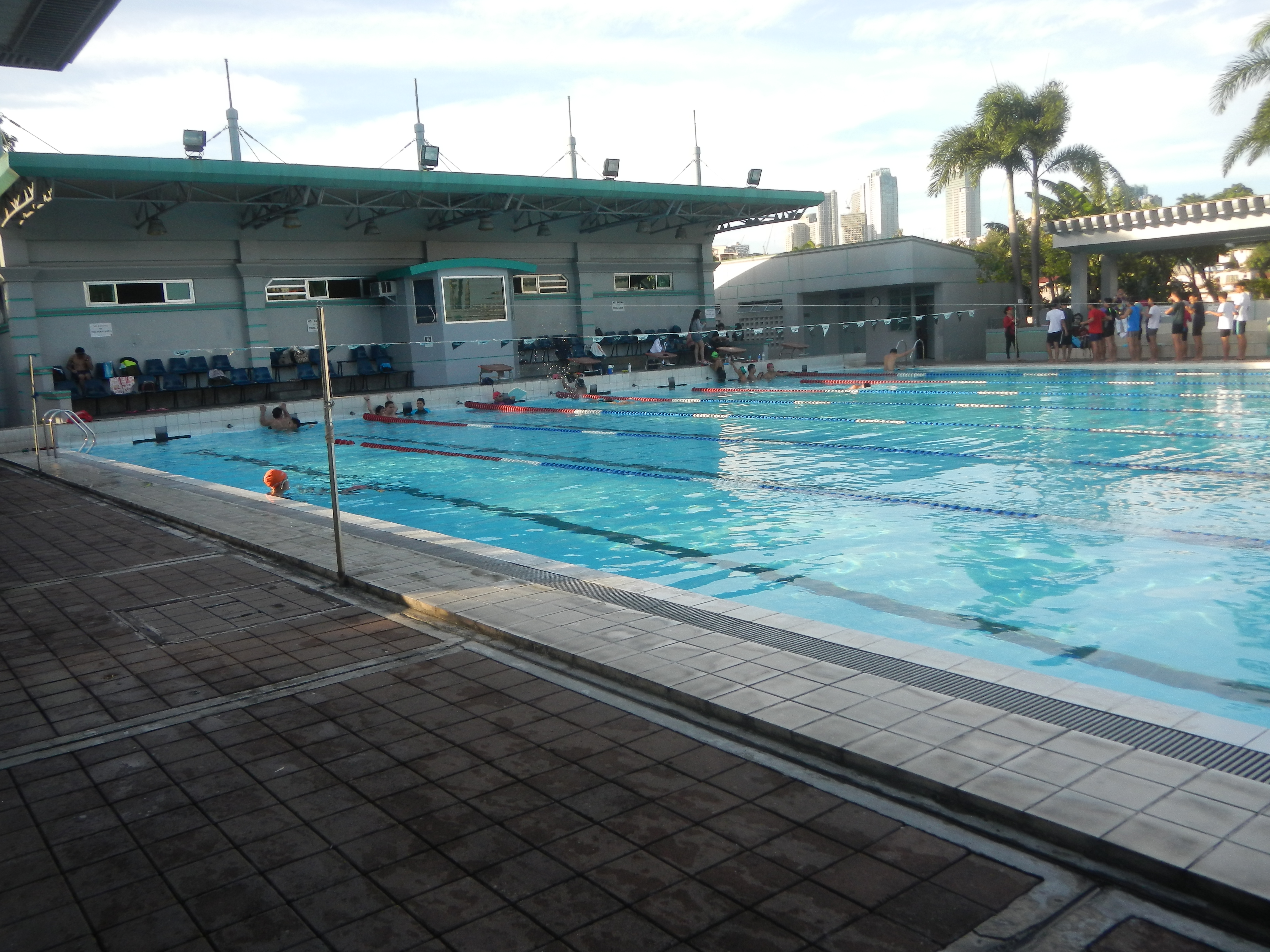 Old trees, fences, amphitheatre and pedestrian footbridges - Makati Park & Garden (J. P. Rizal Extension, District II, West Rembo, Makati City) Makati Aqua Sports Arena (J. P. Rizal Extension, District II, West Rembo, Makati City) Barangay 26 West Rembo Complex 21st Street Sitio V J. P. Rizal Extension, District II, Makati City 14°33'46"N 121°3'34"E J. P. Rizal Street 14°34'18"N 121°0'57"E District II, List of barangays of Metro Manila, Legislative districts of Makati, Barangays Cembo 14°33'54"N 121°3'2"E West Rembo 14°33'40"N 121°3'36"E East Rembo 14°33'11"N 121°3'42"E Barangay Northside, Makati City - Barangay 30 14°33'48"N 121°3'15"E Makati City (beside and bounded, upon the Pasig City Welcome - Boundary Buting Monument in Kalayaan Avenue, East Rembo, Makati City in List of barangays of Metro Manila, Barangay Buting 14°33'19"N 121°4'8"E Pasig City (Note: Judge Florentino Floro, the owner, to repeat, Donor Florentino Floro of all these photos hereby donate gratuitously, freely and unconditionally all these photos to and for Wikimedia Commons, exclusively, for public use of the public domain, and again without any condition whatsoever).